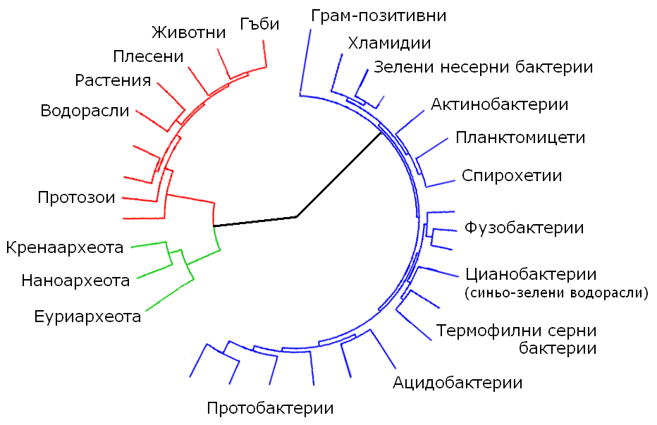 Modification of Image:Collapsed_tree_labels_simplified.png